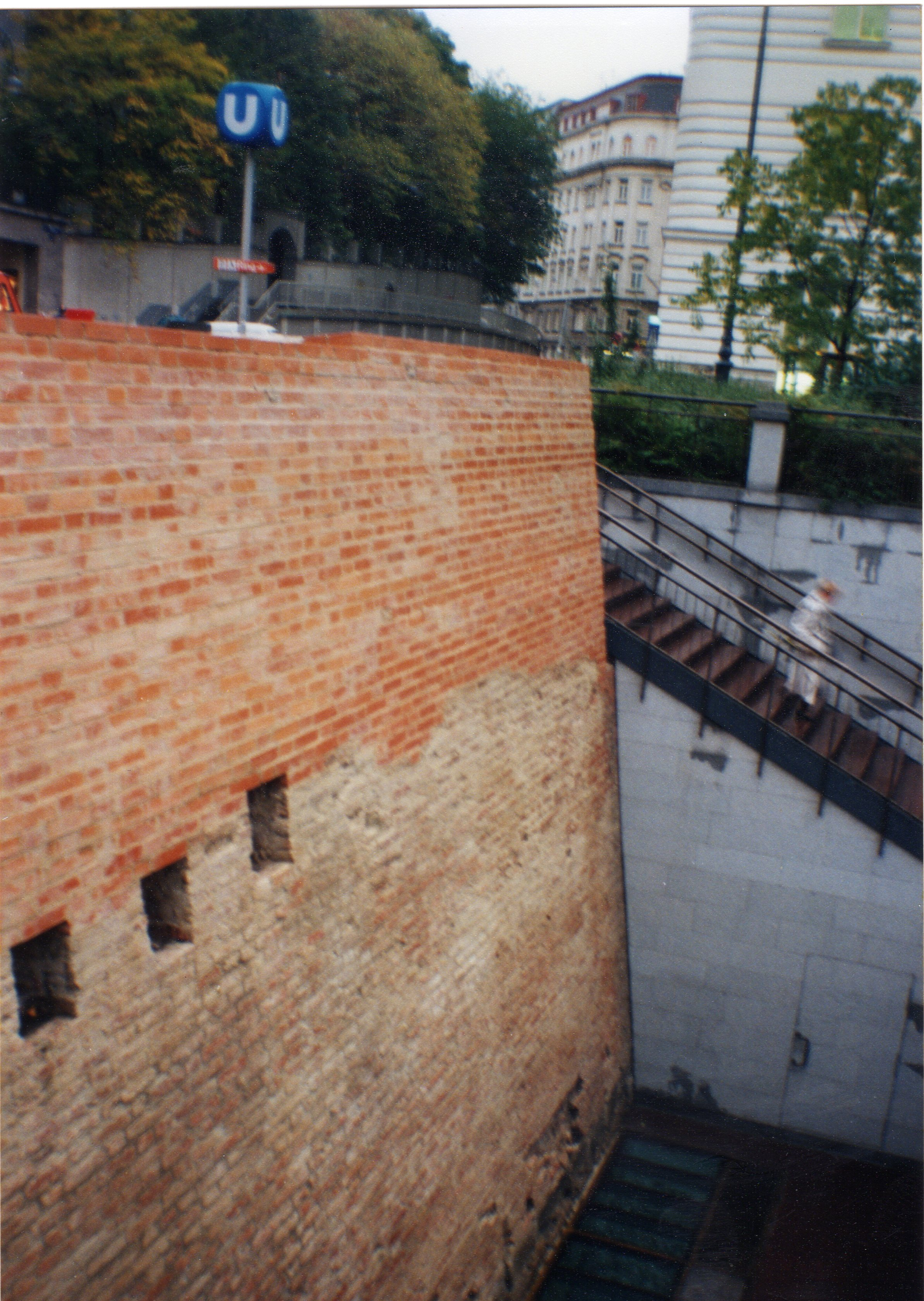 Remains of Vienna city Wall excavated near Stubentor